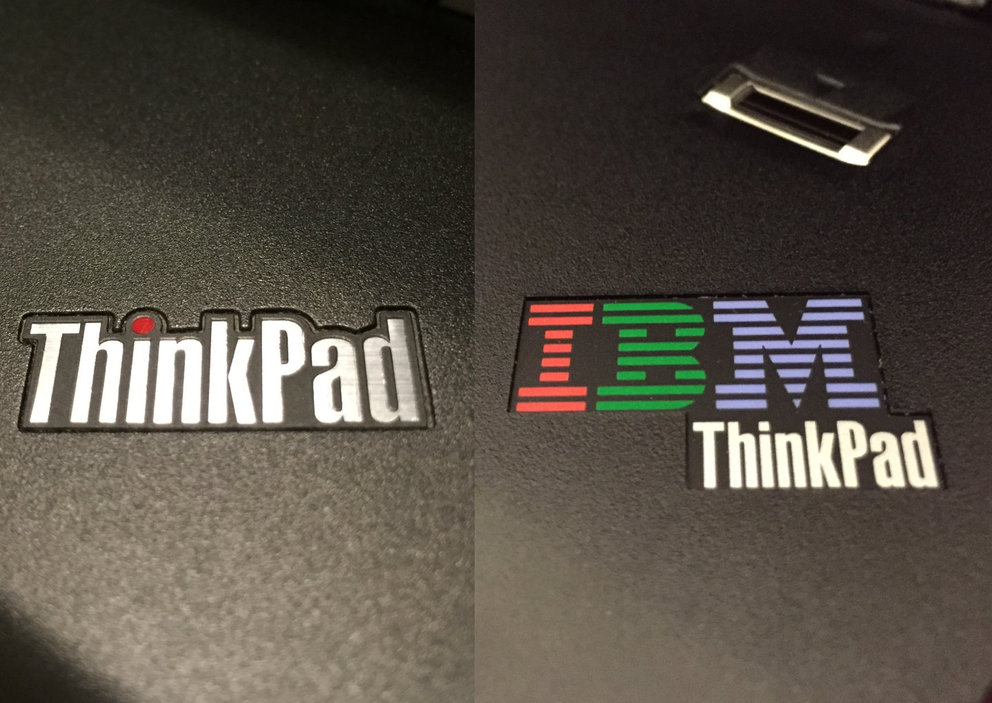 Lenovo's logo (left) and IBM's previous logo (right)